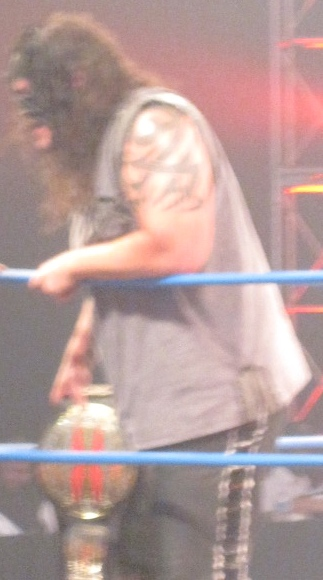 Sunday, June 12, 2011. Universal Orlando